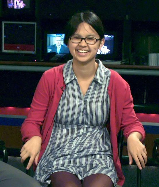 This is a photo of Charlyne Yi while she was promoting her movie Paper Heart in July 2009 in San Diego, Ca, USA.